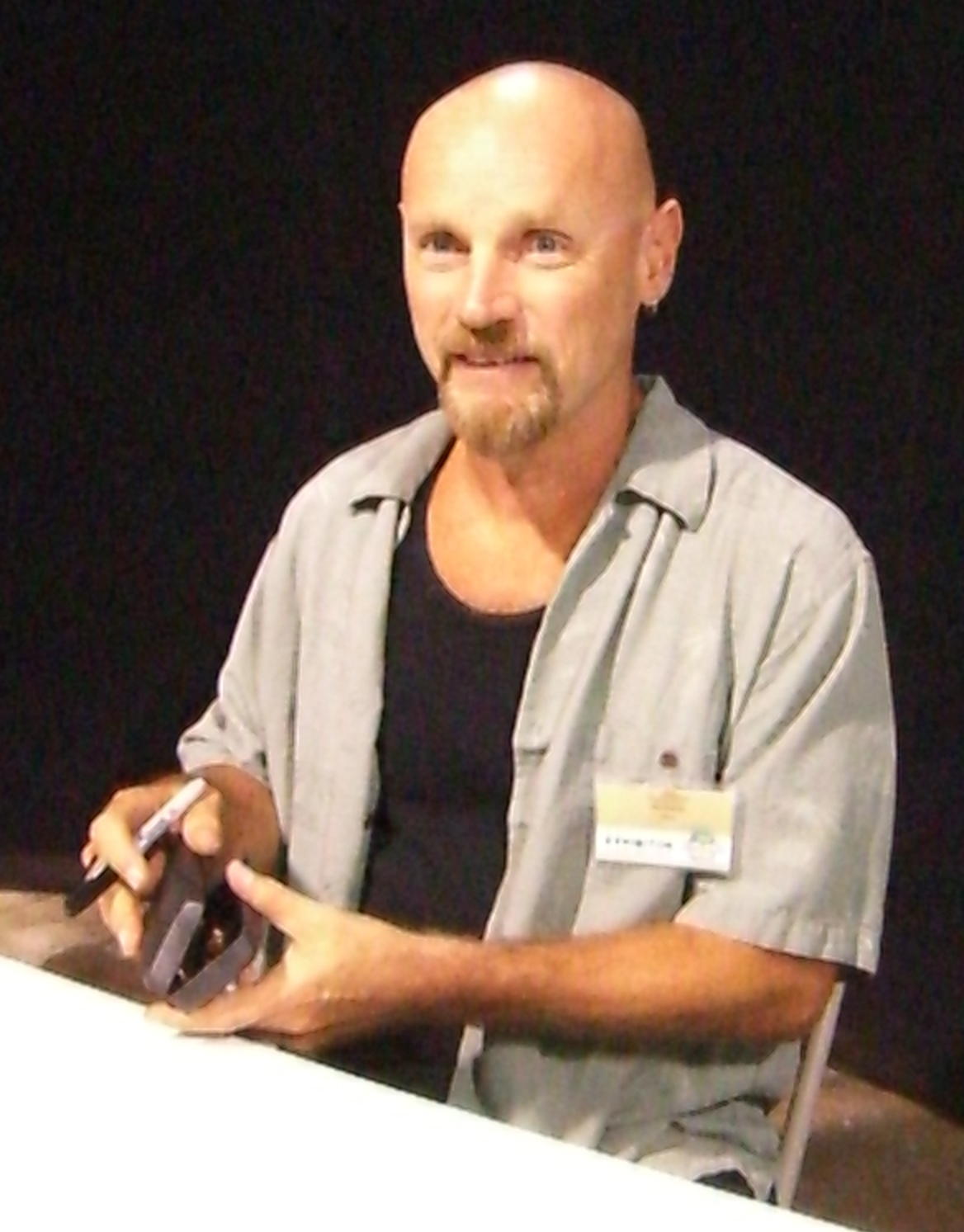 Photo of Jim Starlin at the Wizard World comic convention, Chicago, Ill.